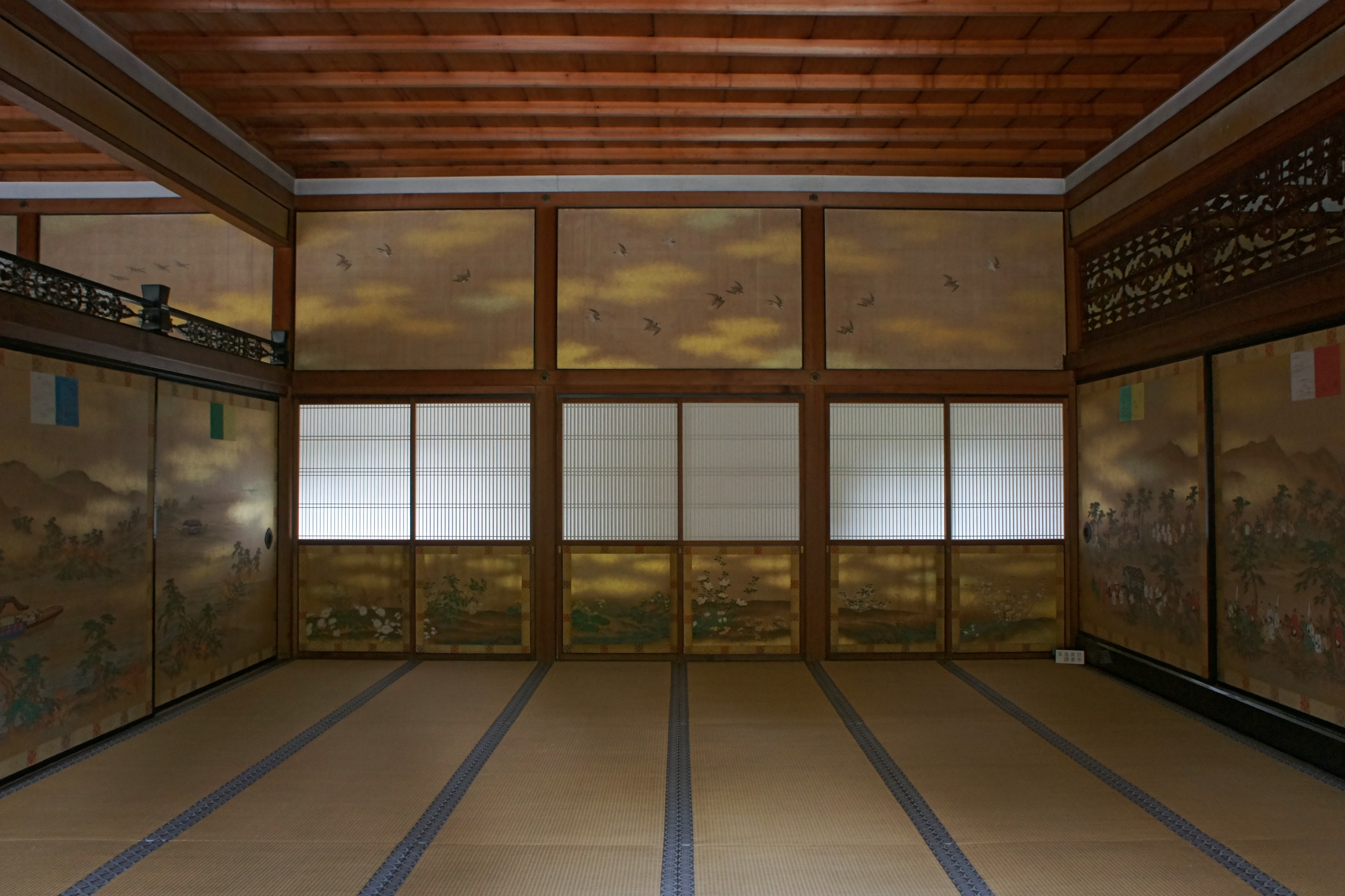 Ninna-ji's Shinden in Ukyō-ku, Kyoto, Kyoto Prefecture, Japan. Ninna-ji was registered as part of the UNESCO World Heritage Site "Historic monuments of ancient Kyoto".